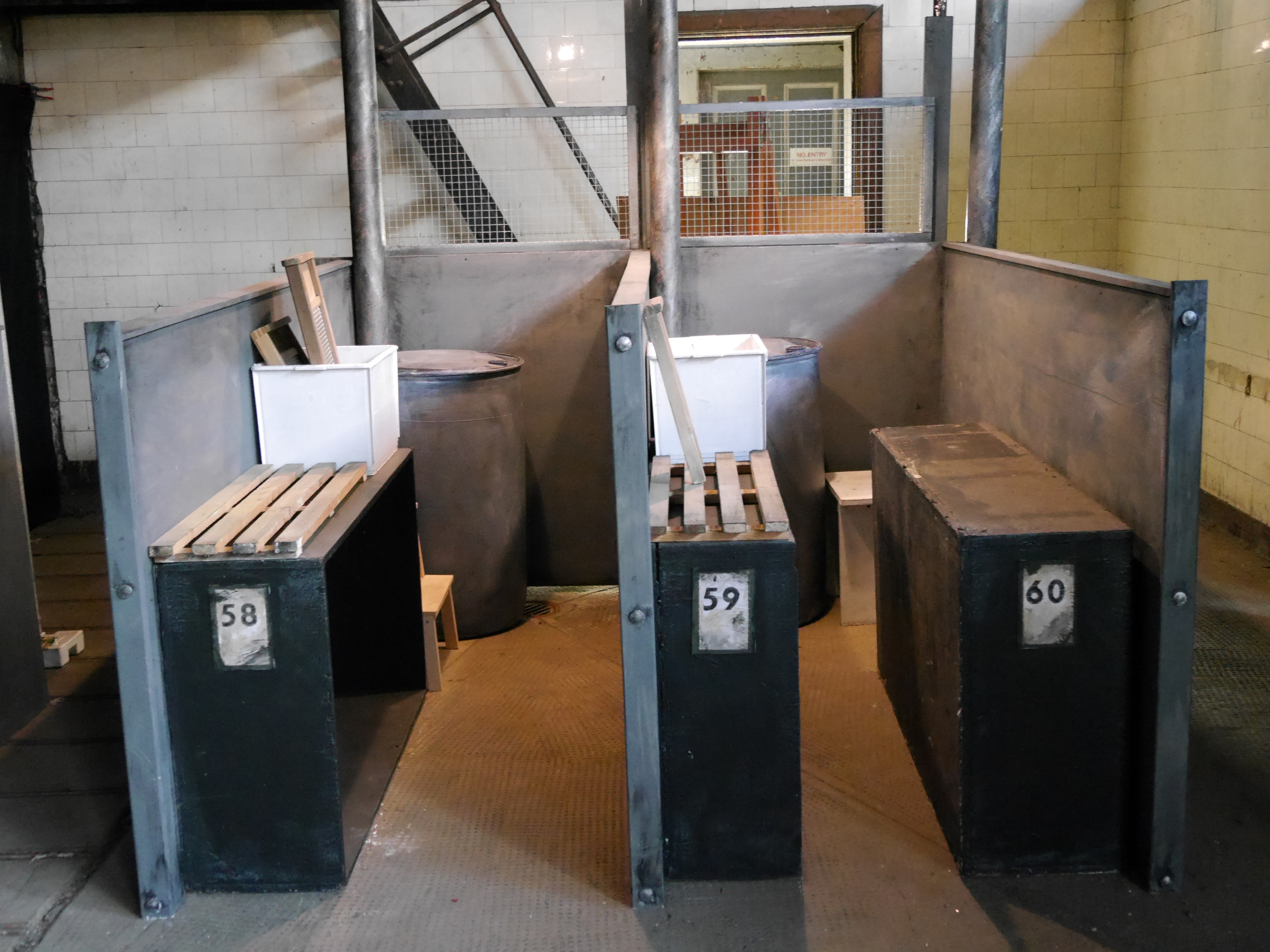 GLASGOW, GOVANHILL, 99 CALDER STREET, CALDER STREET PUBLIC BATHS AND WASHHOUSE Wikidata has entry Q17812575 with data related to this building.